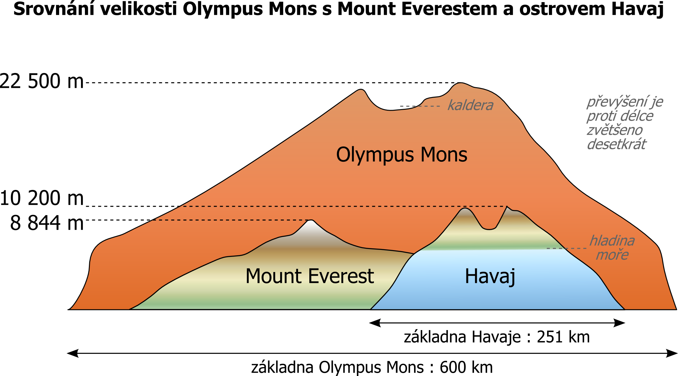 Comparison diagram between Olympus Mons (on planet Mars), the highest mountain in the solar system, and the highest mountains on Earth : Mauna Kea (Hawaii island) and Everest. Czech version.